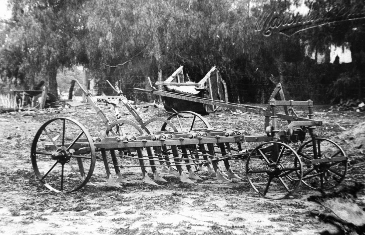 Stump jump plough cultivator built by W.T. Tape of Main North Road, Willaston in South Australia. Awarded first prize and bronze medal at the Royal Adelaide Show in 1913.